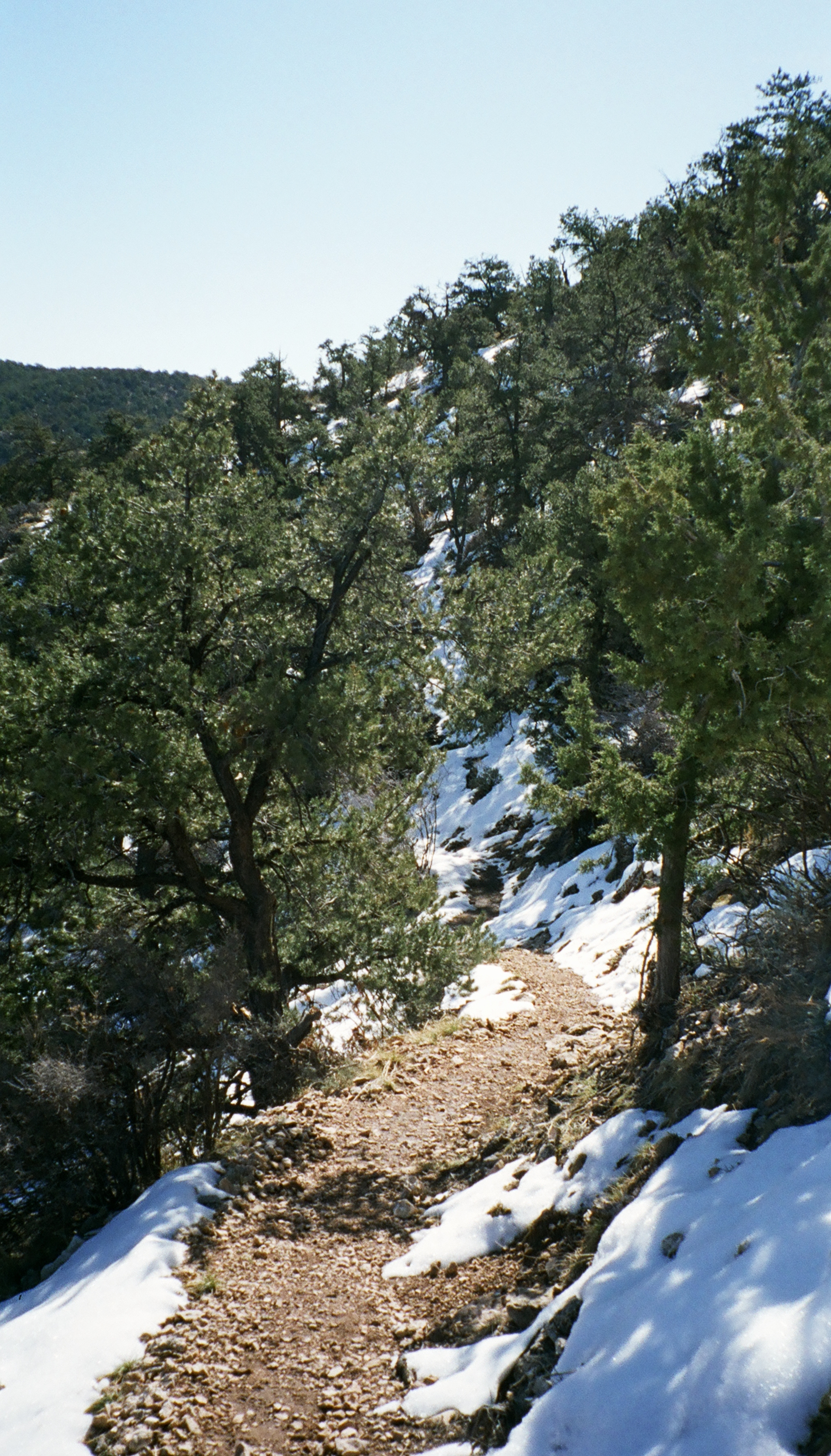 The start of the South Bass Trail.